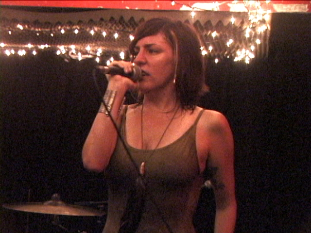 Jillian Iva of the group Von Iva performing live at Cake Shop, NYC.